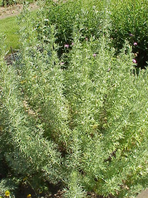 Artemisia herba-alba (Family : Compositae)